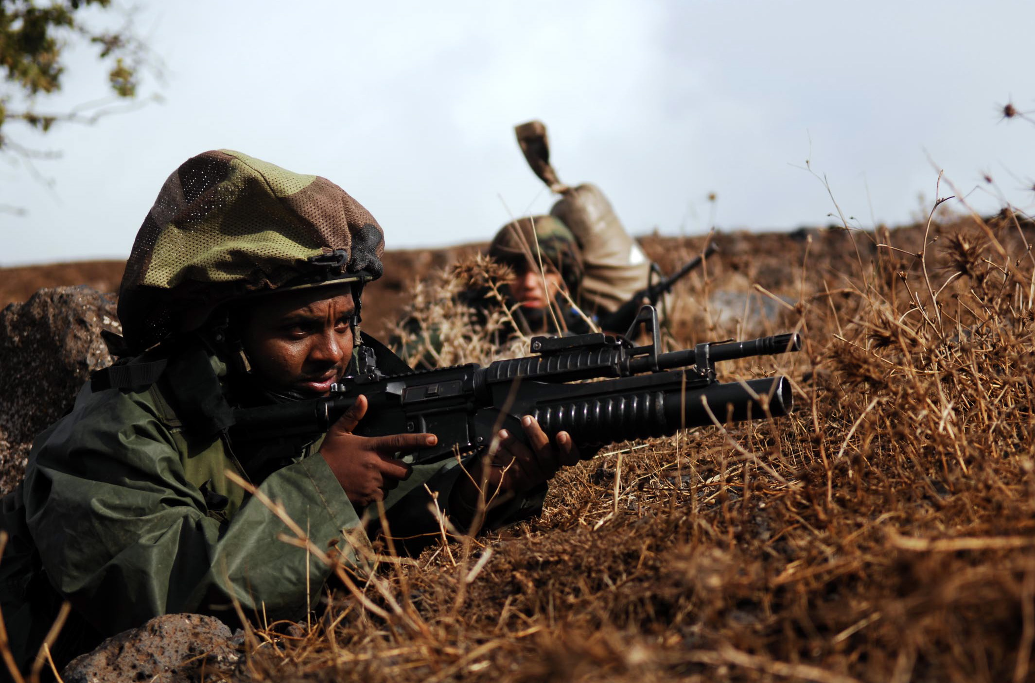 A soldier in the paratrooper brigade takes part in drills during the fall season.